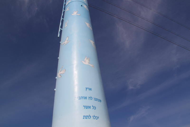 Painted electricity pylon, memorial on Tom and Tomer hill, Israel